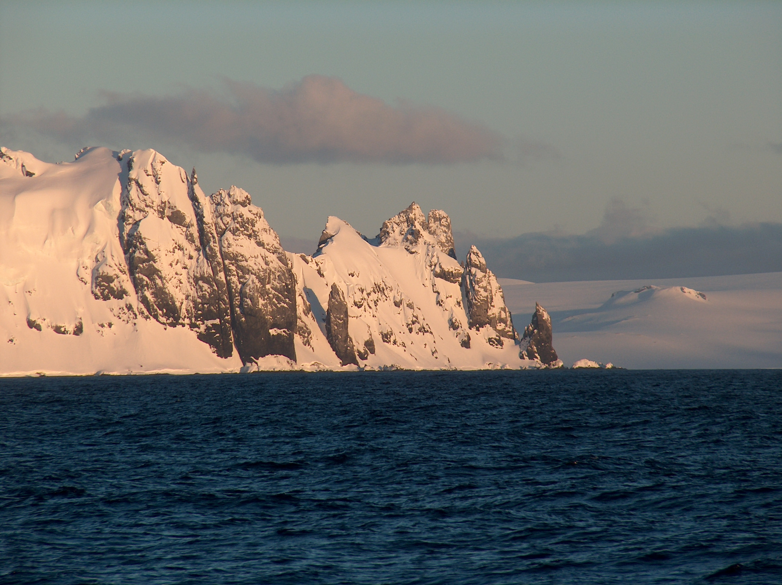 Renier Point, the east extremity of Burgas Peninsula and Livingston Island in the South Shetland Islands; photo taken from ROU Vanguardia Viewpoint location: ROU Vanguardia, Uruguayan Navy in Bransfield Strait off Livingston Island, in the South Shetland Islands Viewpoint elevation: 5 meters Camera: HP PhotoSmart C945 (V01.54)